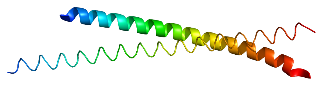 Structure of the ATF4 protein. Based on PyMOL rendering of PDB 1ci6.